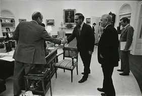 The photo contact sheet, identified as A5022 by the White House Photographic Office (WHPO), is housed at the Gerald R. Ford Presidential Library, a branch of the National Archives and Records Administration (NARA). This file is a 200 dpi photo contact sheet having images from roll of film A5022 of the August 9, 1974 - January 20, 1977 Gerald R. Ford White House Photographic Office Series A0001-A9999 and B0001-B2886 photographs. The date on the photo contact sheet is the date the roll of film was processed, not necessarily the date the photographs were taken. See table below for additional details.